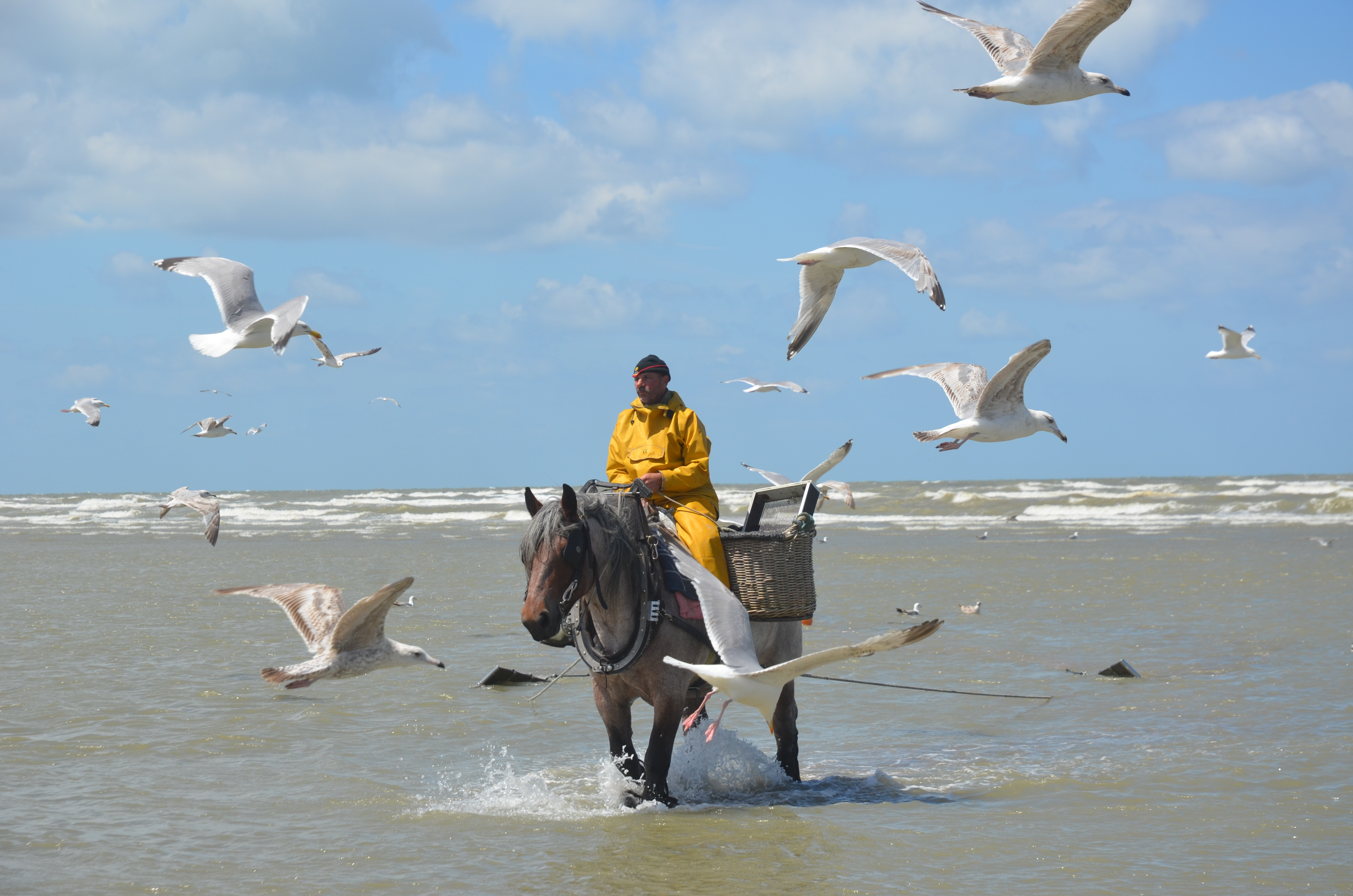 This photo of immaterial heritage has been taken in the Flemish Region